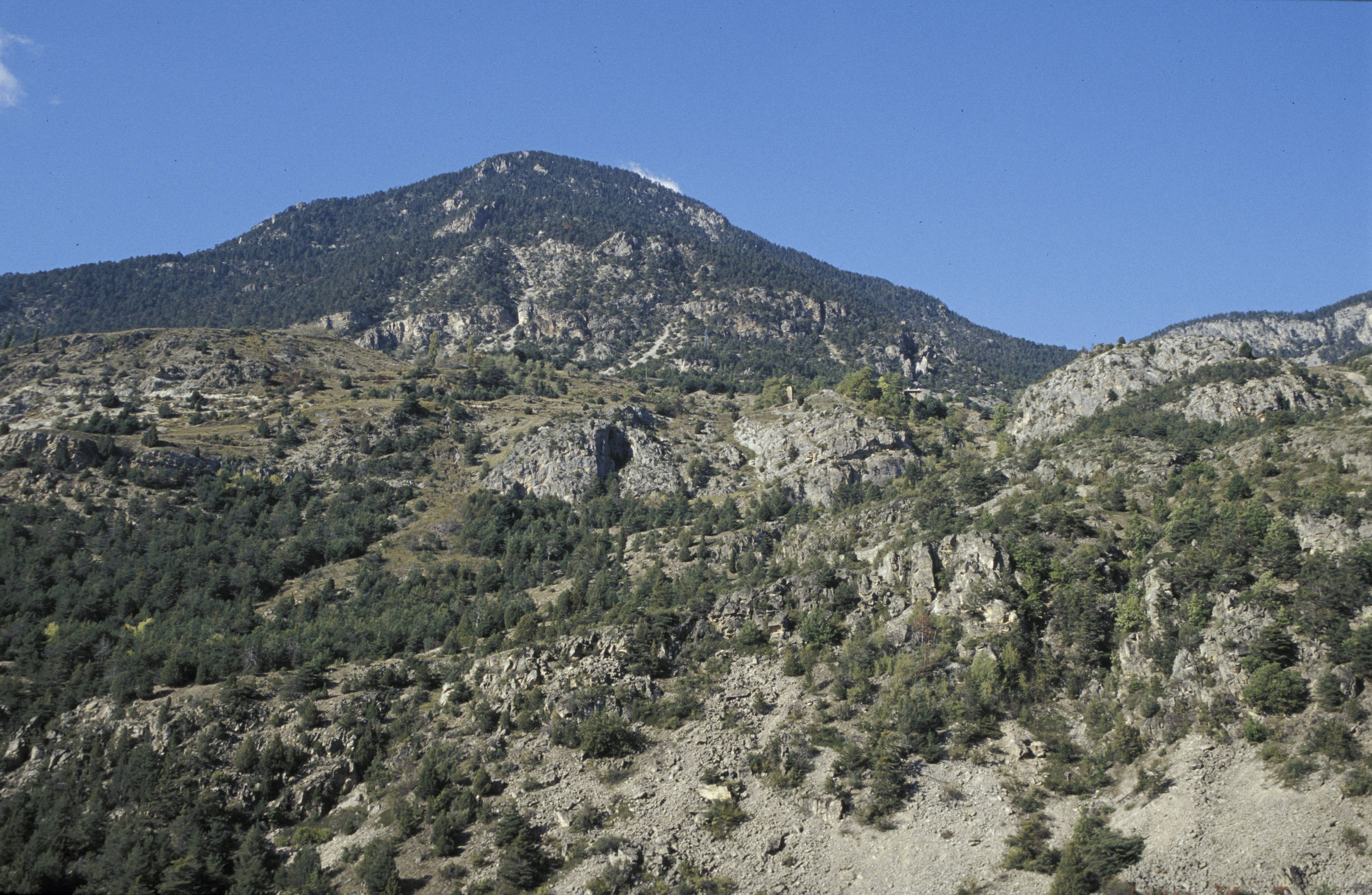 Montains near river Guil in Guillestre (Hautes-Alpes) in France.